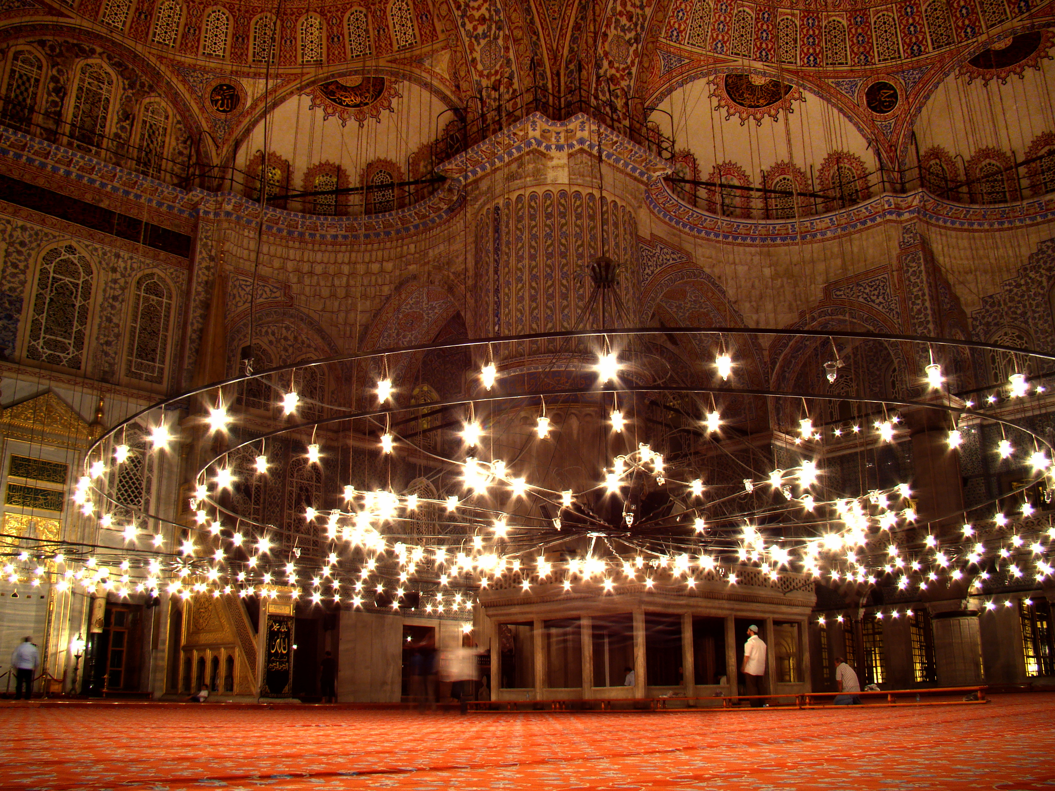 The interior of the Sultan Ahmed Mosque ("The Blue Mosque") in Istanbul, Turkey, showing the prayer area, chandelier and much of the walls.